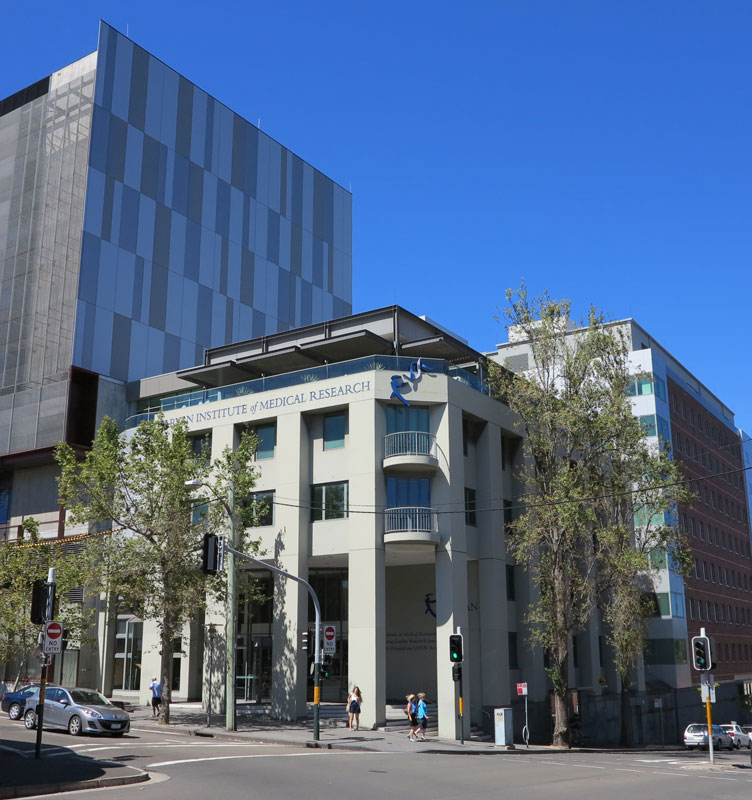 Exterior shot of the Garvan Institute of Medical Research building in Darlinghurst in Sydney, Australia